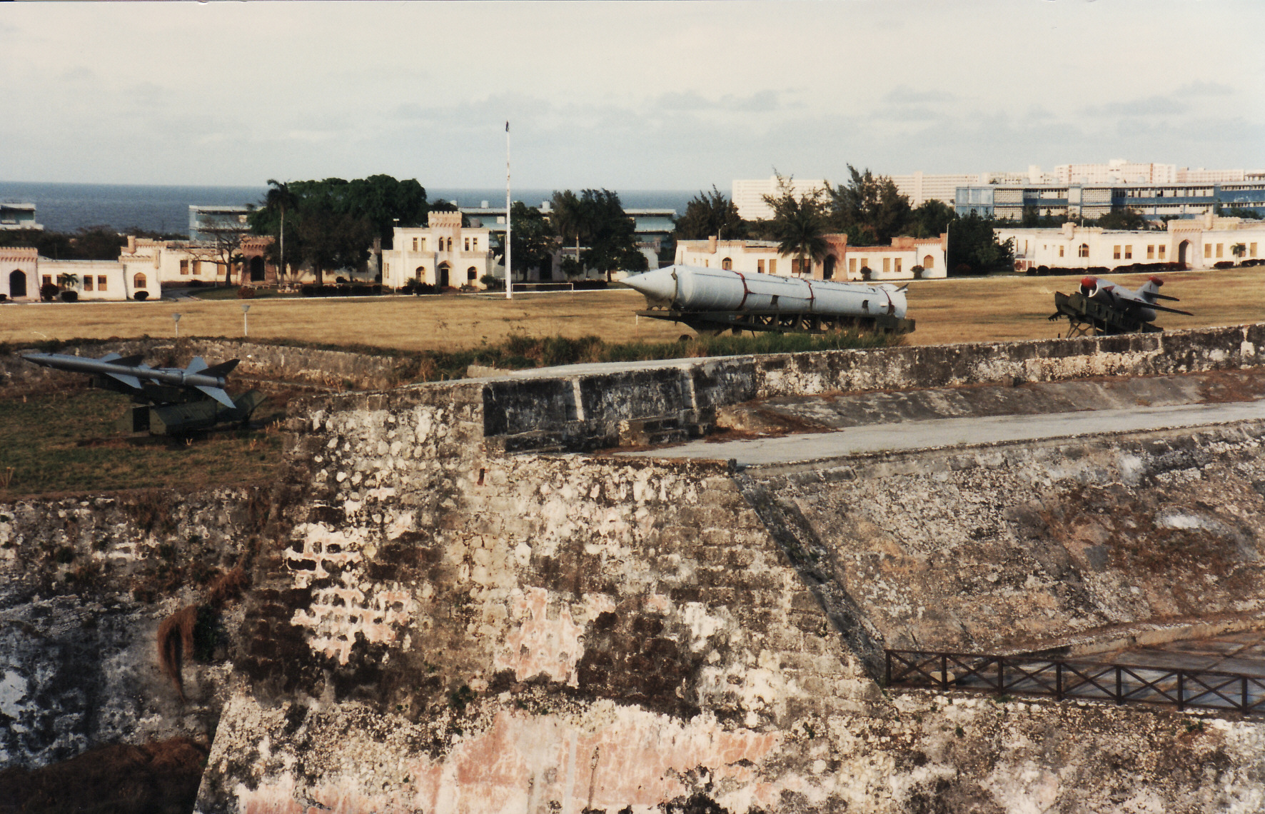 S-75 Dvina, R-14 Usovaya & KS-1 Komet missiles at Morro Castle, Havana, Cuba